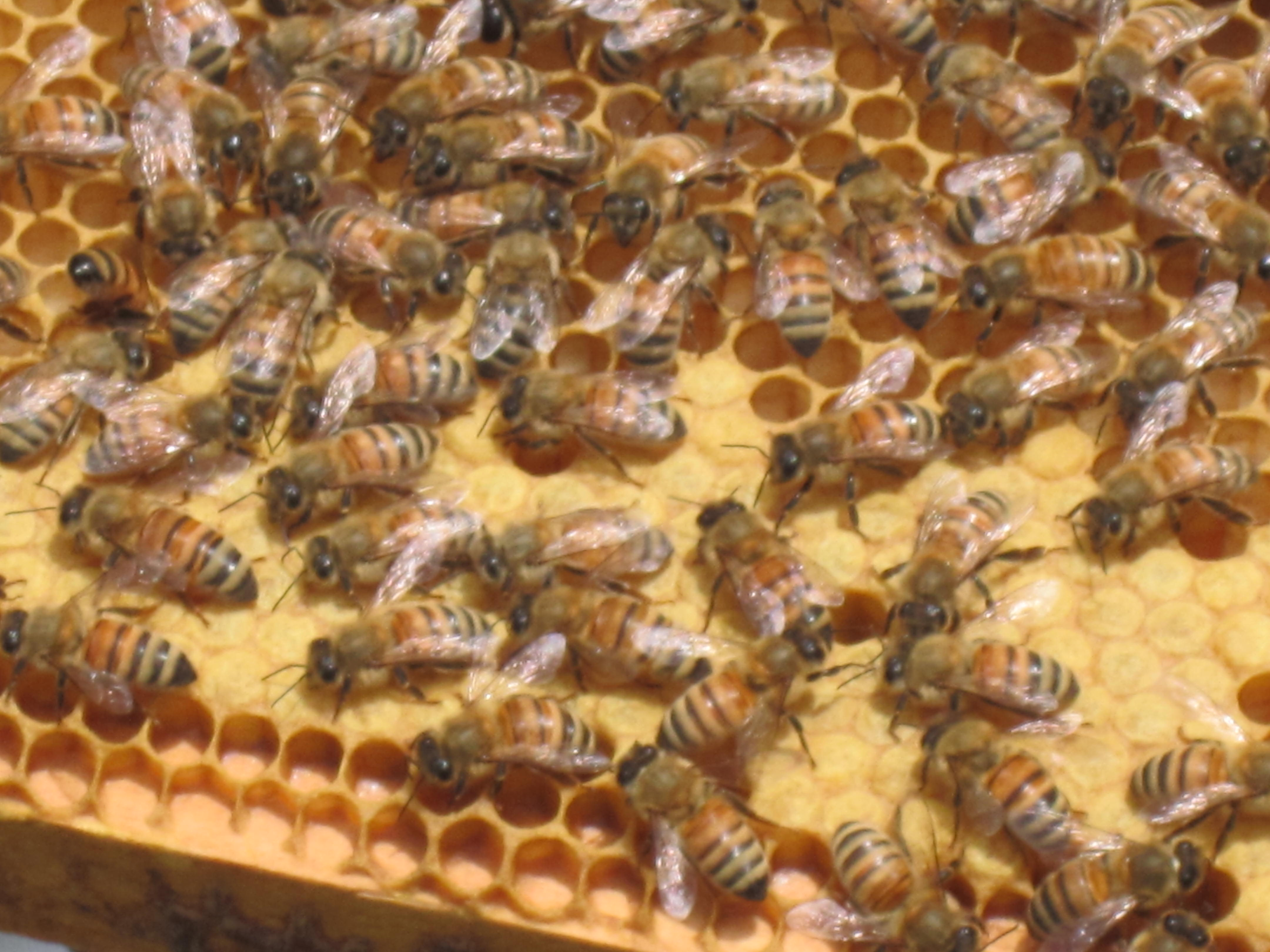 Closeup of honey bees on an artificial honeycomb removed from hive for inspection by beekeeper. From